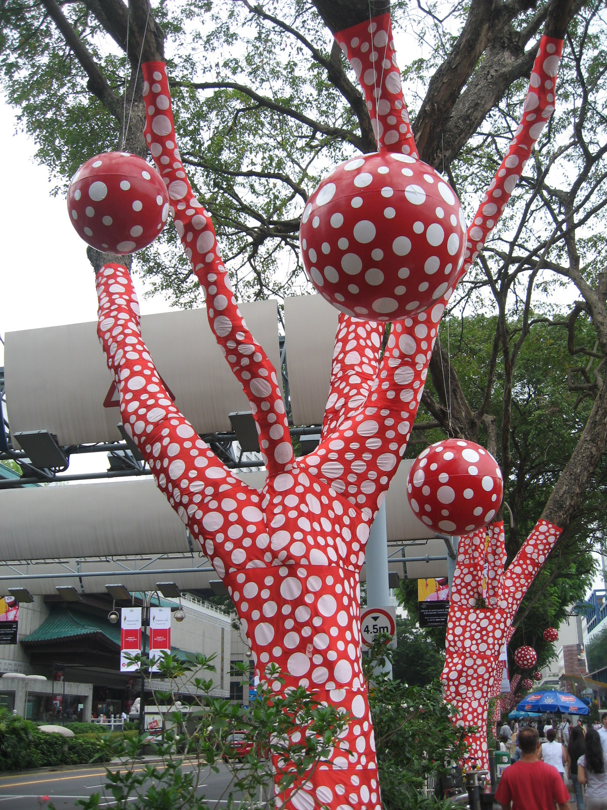 Yayoi Kusama - Ascension of Polkadots on the Trees at the Singapore Biennale 2006.